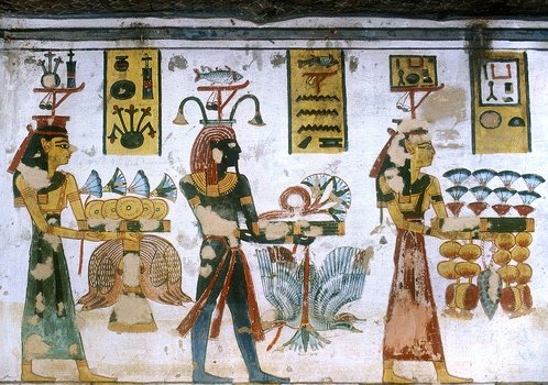 Nile god and goddesses representing Heliopolis and Memphis carrying food offerings.